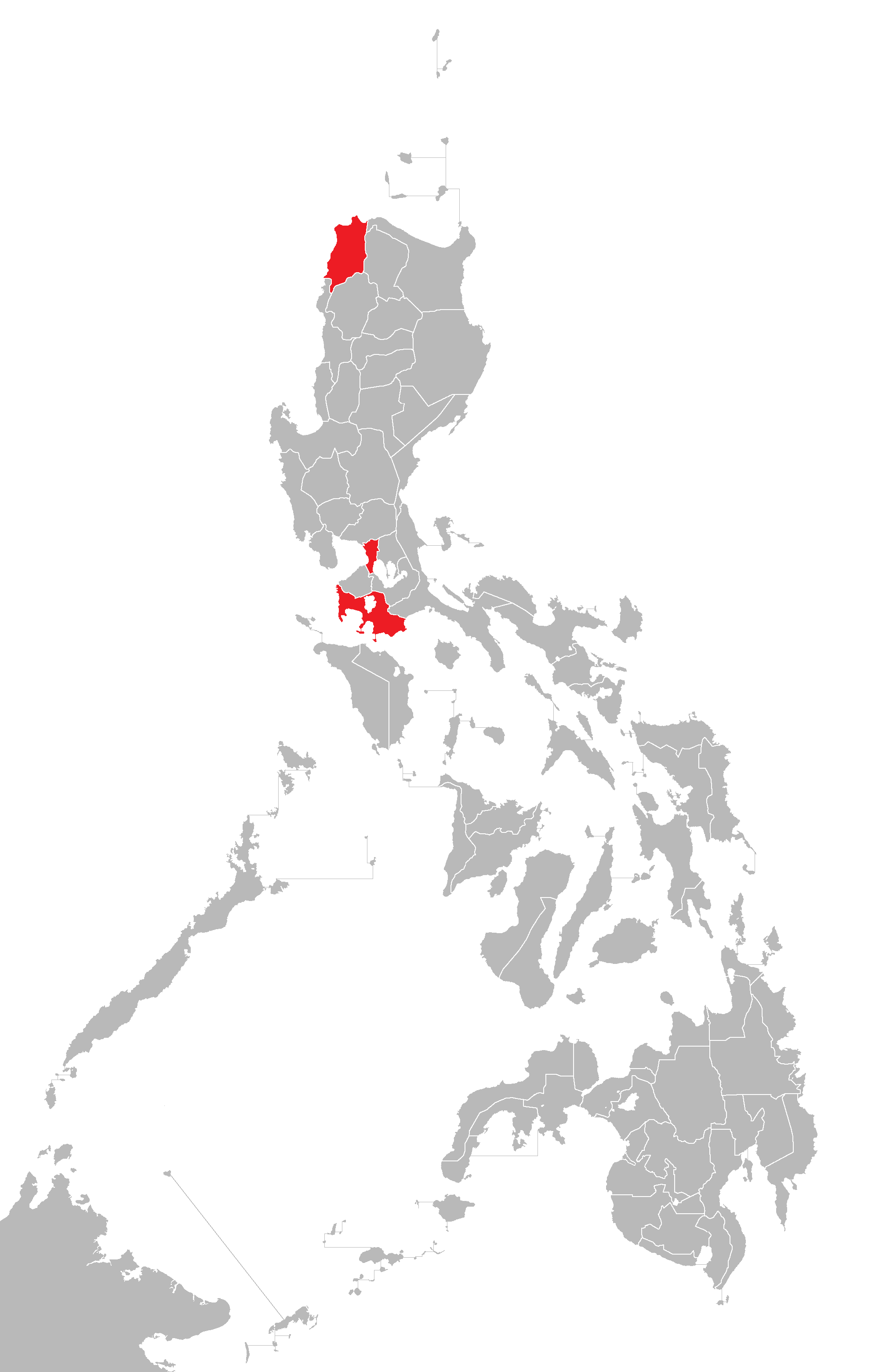 Map of the Philippines highlighting the birthplaces of Prime Ministers. Made fromFile:BlankMap-Philippines.png.